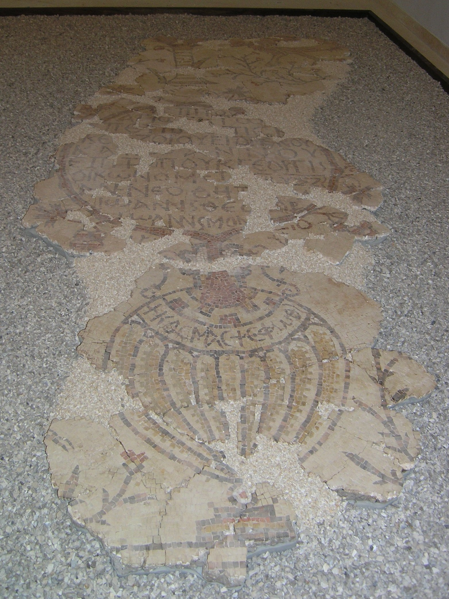 Museum at the Lowest Place on Earth (MuLPE), Mosaic of the Sanctuary of Agios Lot